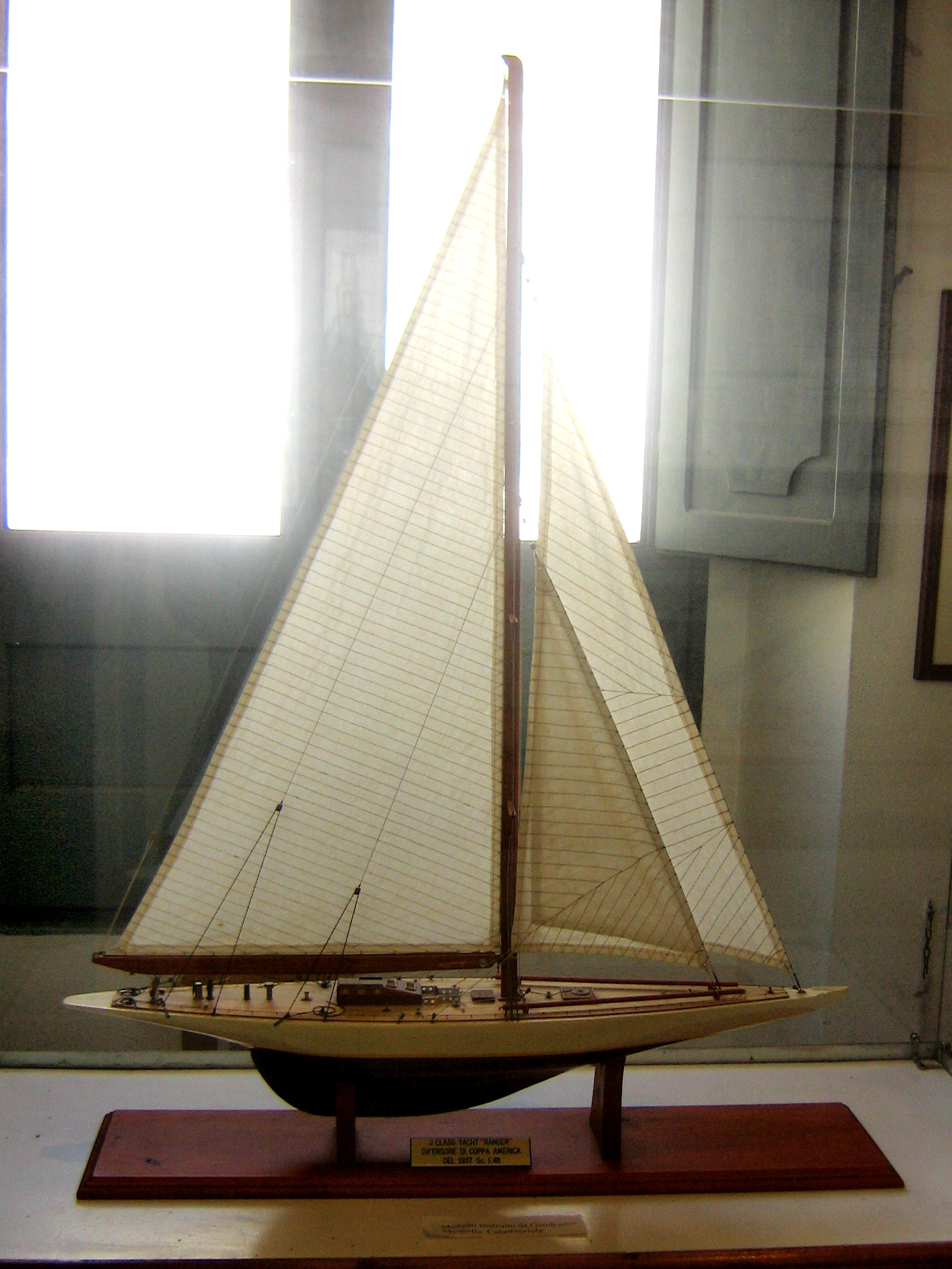 A scale model of the yacht Ranger, 1937. Museo del Mare, Ischia.